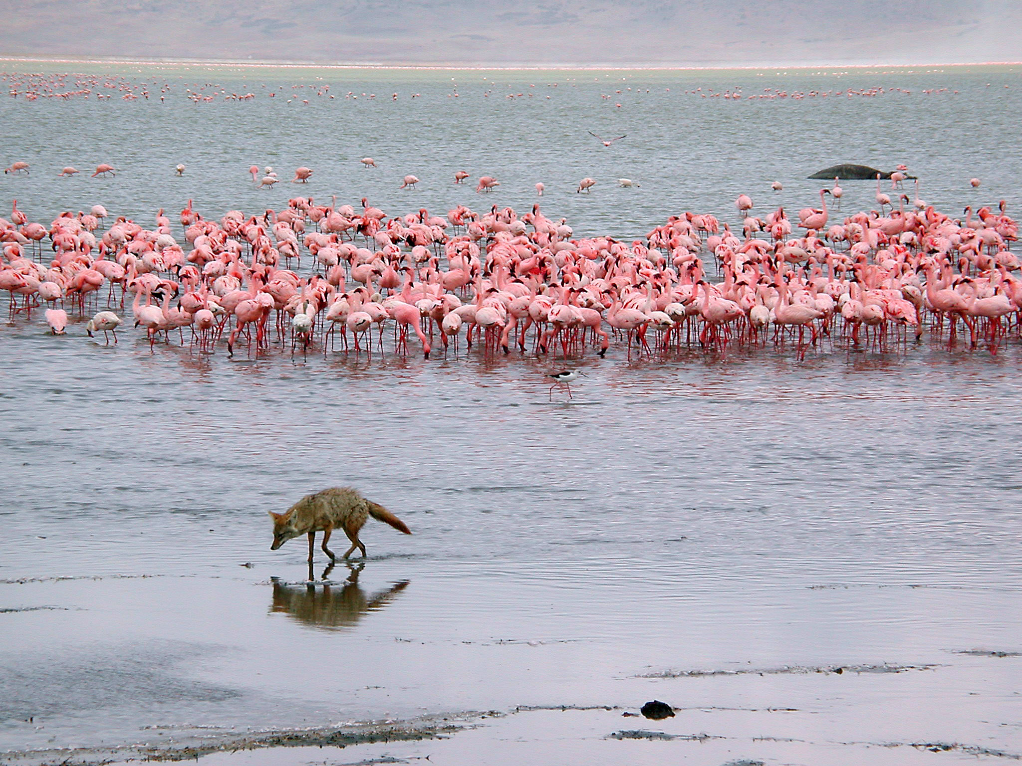 An African wolf, Lesser Flamingos, a Black-winged Stilt, and a Hippopotamus in the Ngorongoro crater lake.